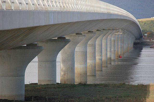 The Clackmannanshire Bridge (2) The supporting columns viewed from the Stirlingshire side of the bridge